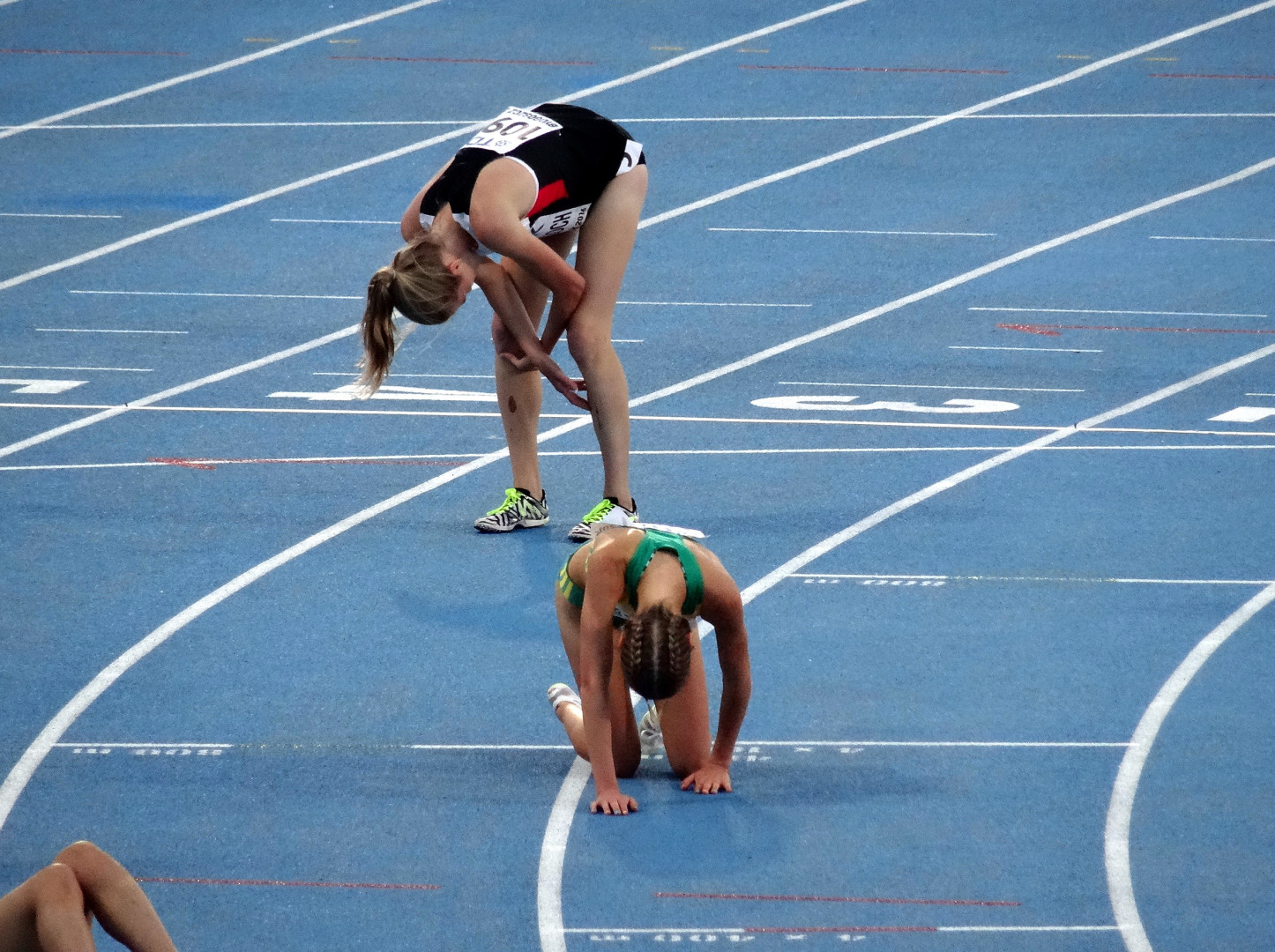 2016 IAAF World U20 Championships in Bydgoszcz, 3000m women final